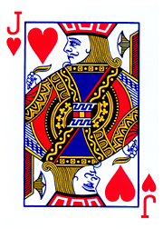 A Playing card: jack of hearts , from poker deck, in small png format.